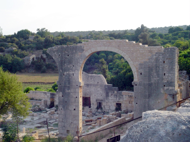 Ellaiussa-Sebaste is ancient Roman site in Erdemli district of Mersin province in Turkey.